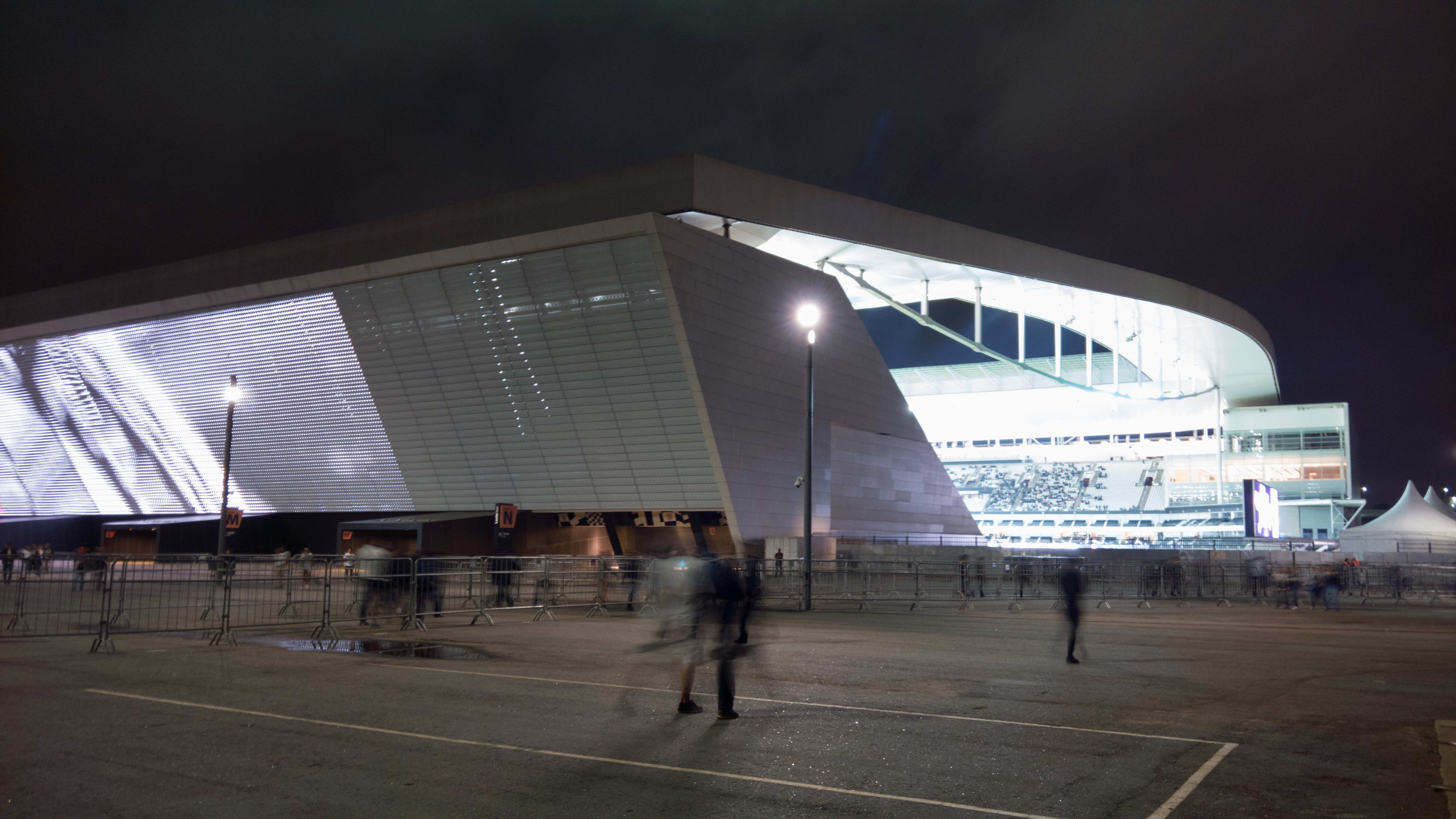 Arena Corinthians stadium from the outside at night. About a third of the giant screen placed on one of its walls can be seen. São Paulo, Brazil.